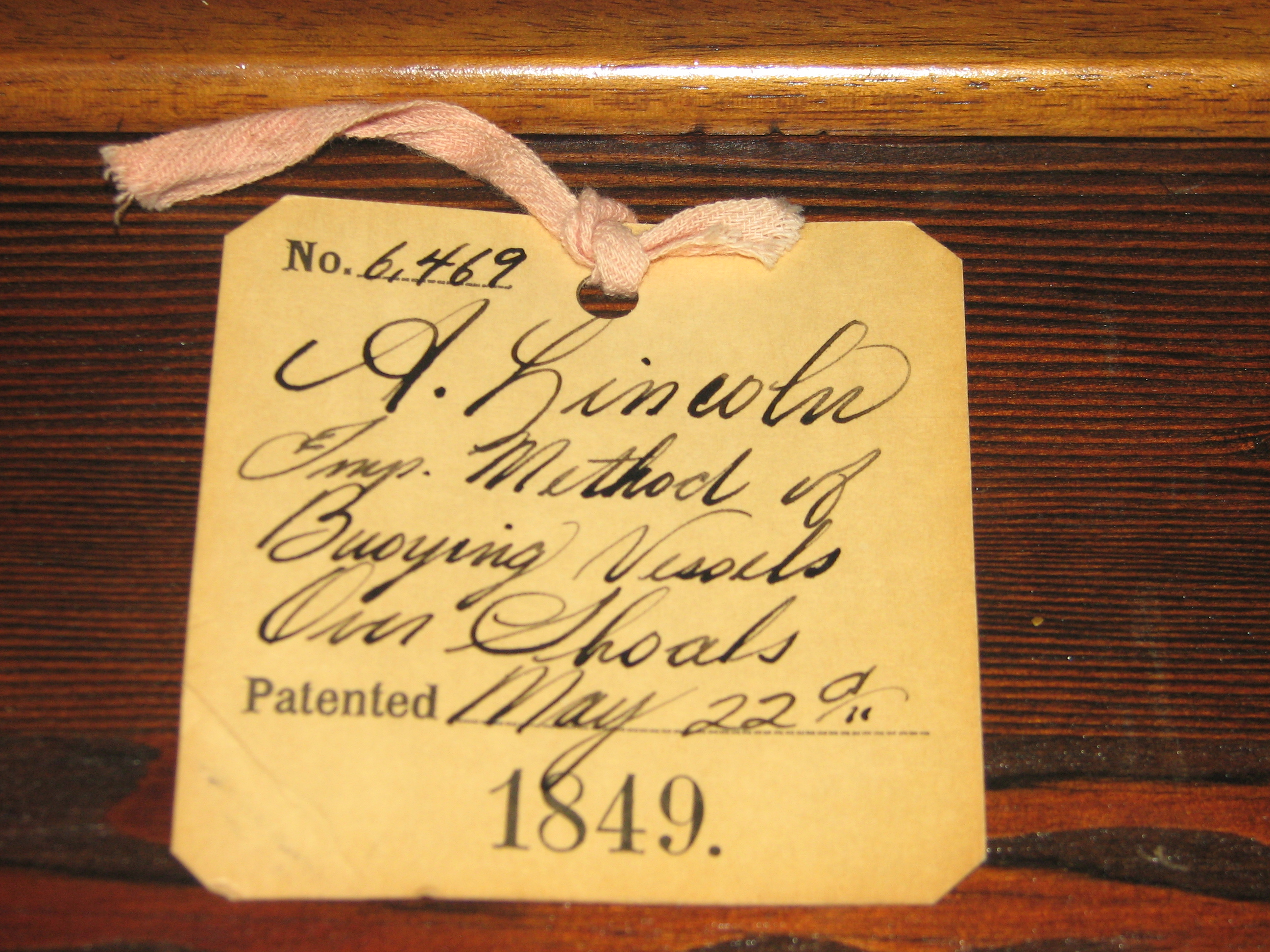 A. Lincoln, "An Improved Method of Buoying Vessels Over Shoals";, Patented May 22nd 1849.